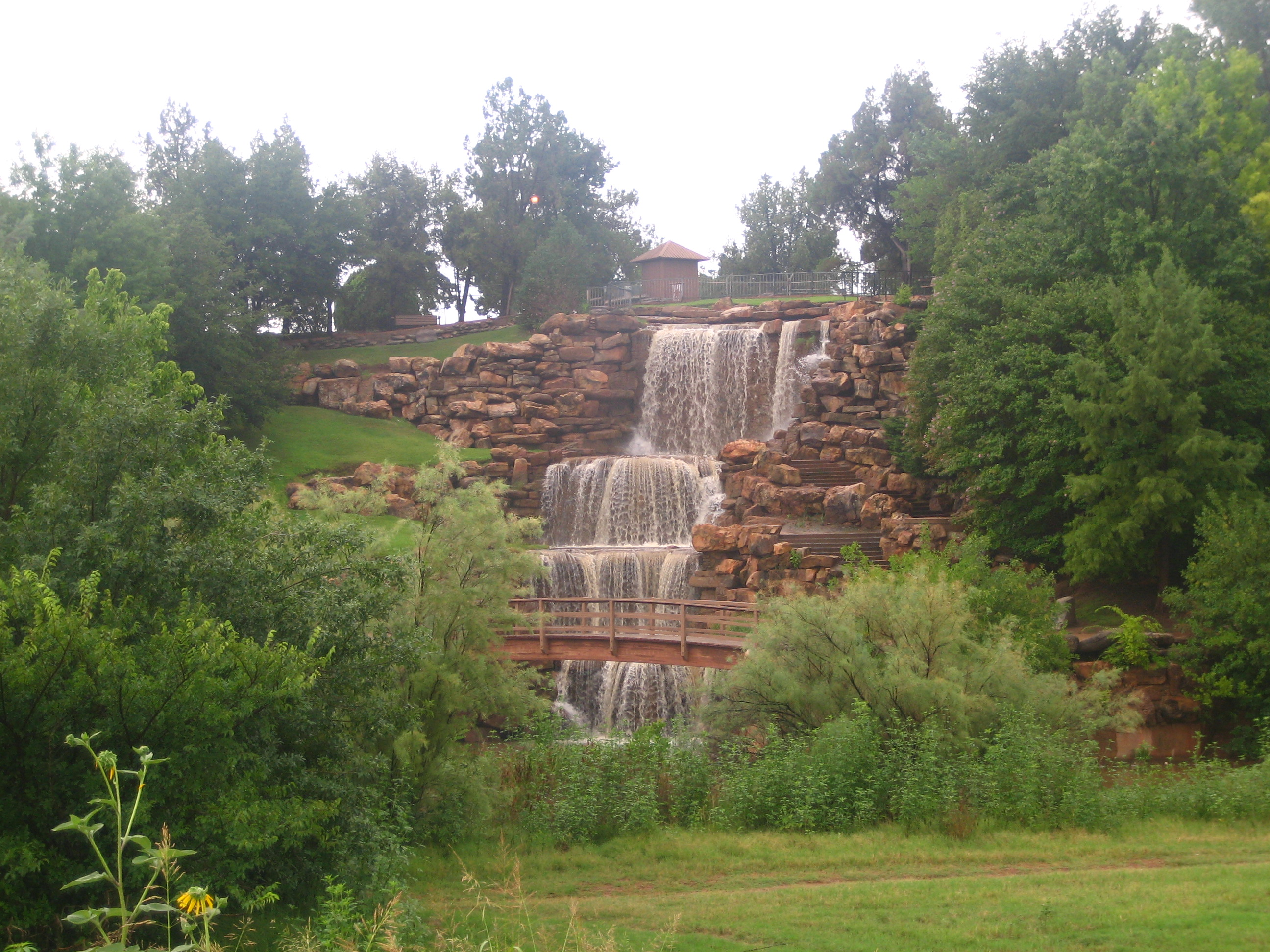 The Falls of the Wichita River, Wichita Falls, Texas, United States.